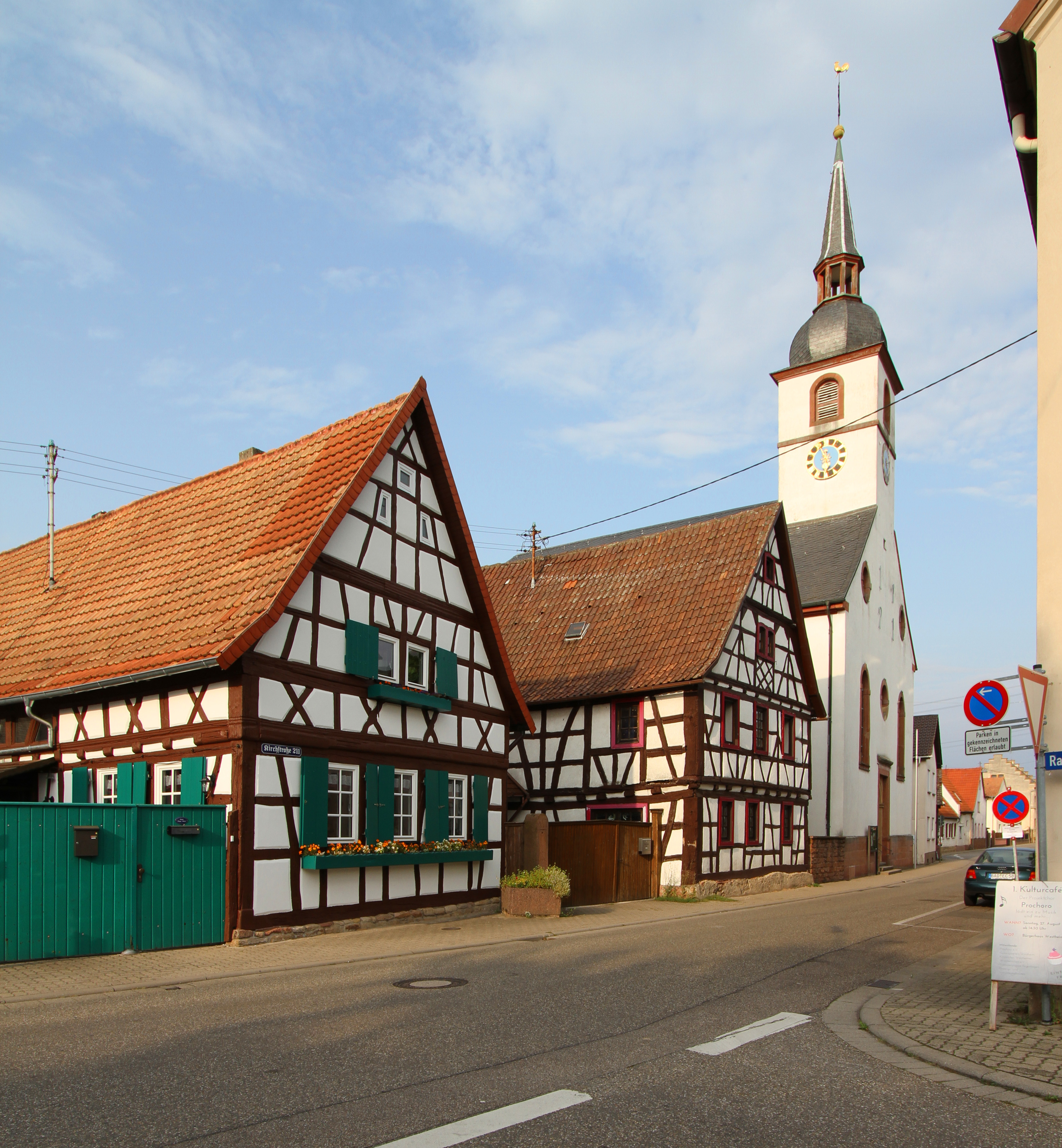 Cultural heritage monument in Westheim (Pfalz)